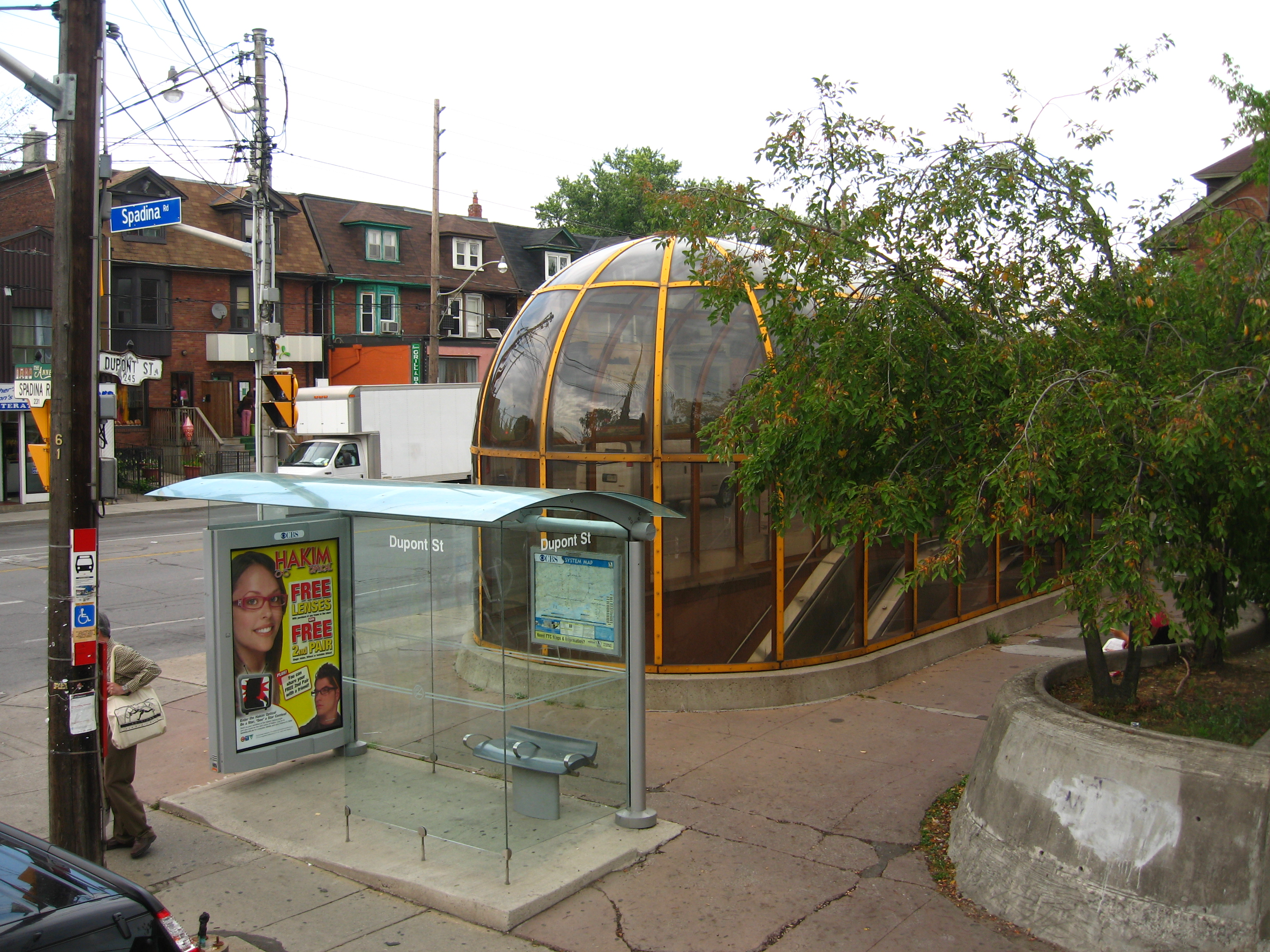 Dupont Station in Toronto. There is a bus stop beside the glass domed entrance at the northwest corner of Spadina and Dupont.